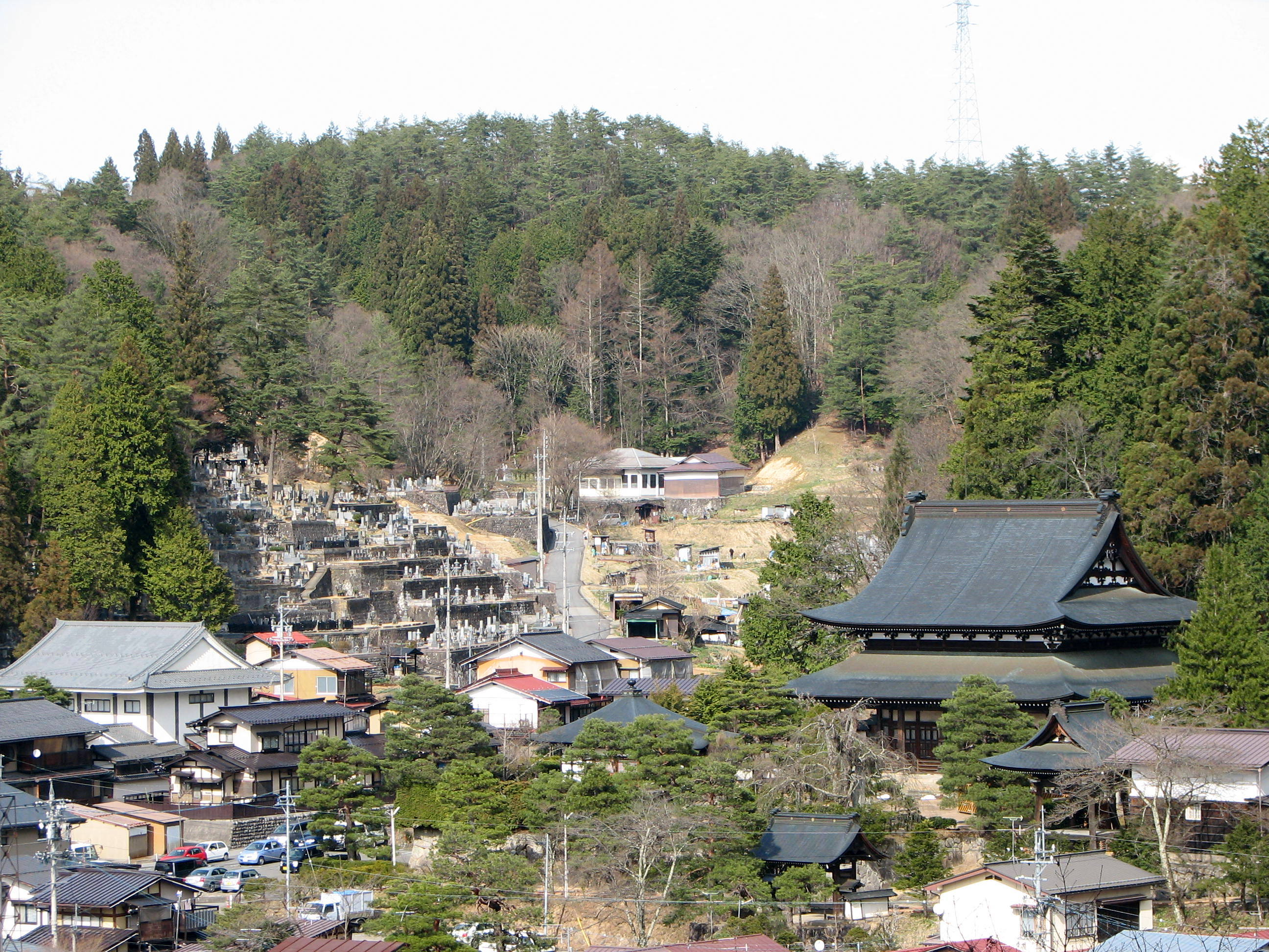 Higashiyama Temple Area, Takayama, Gifu Prefecture, Japan